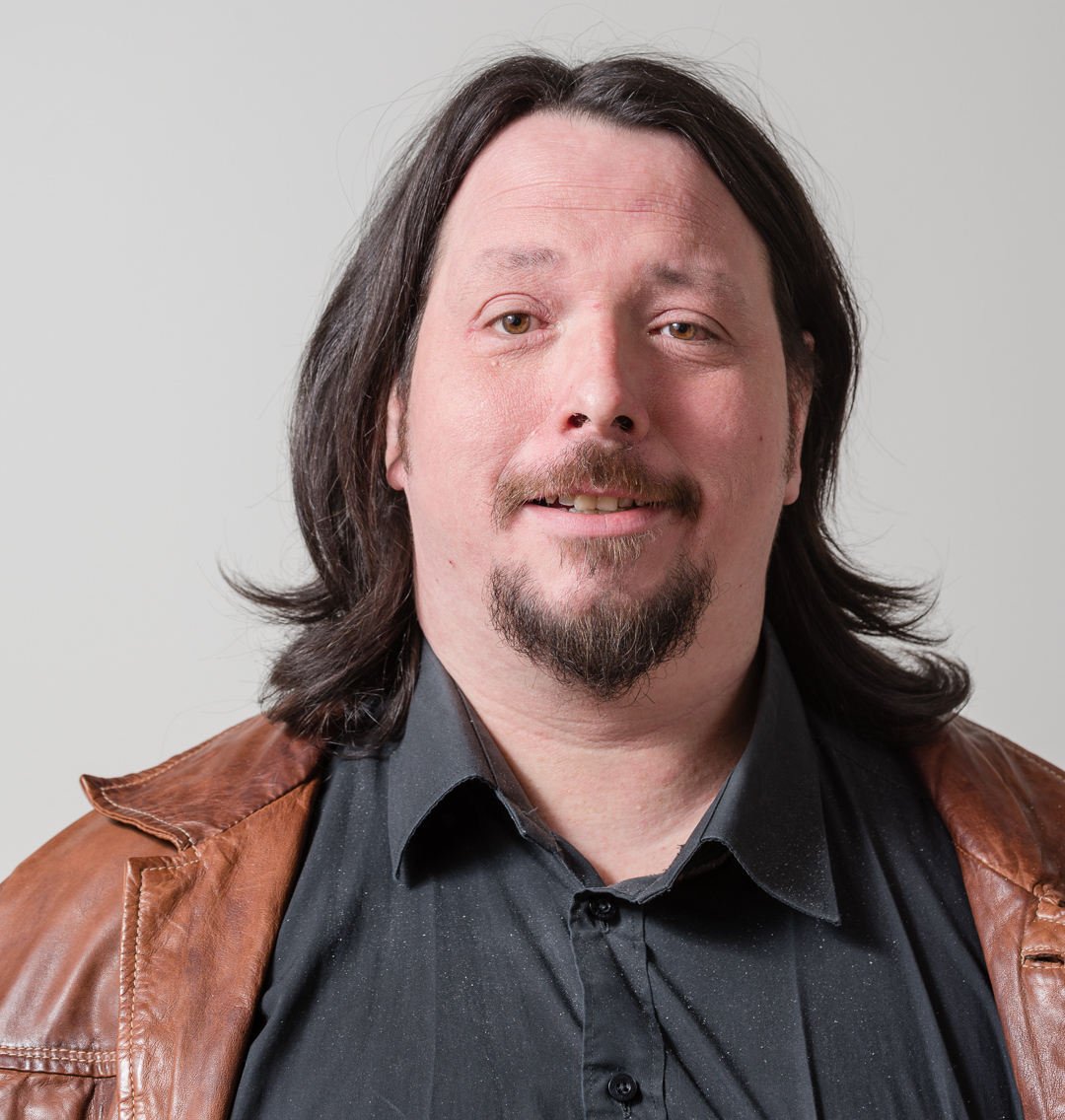 Norwegian political activist Ole Marcus Mærøe.